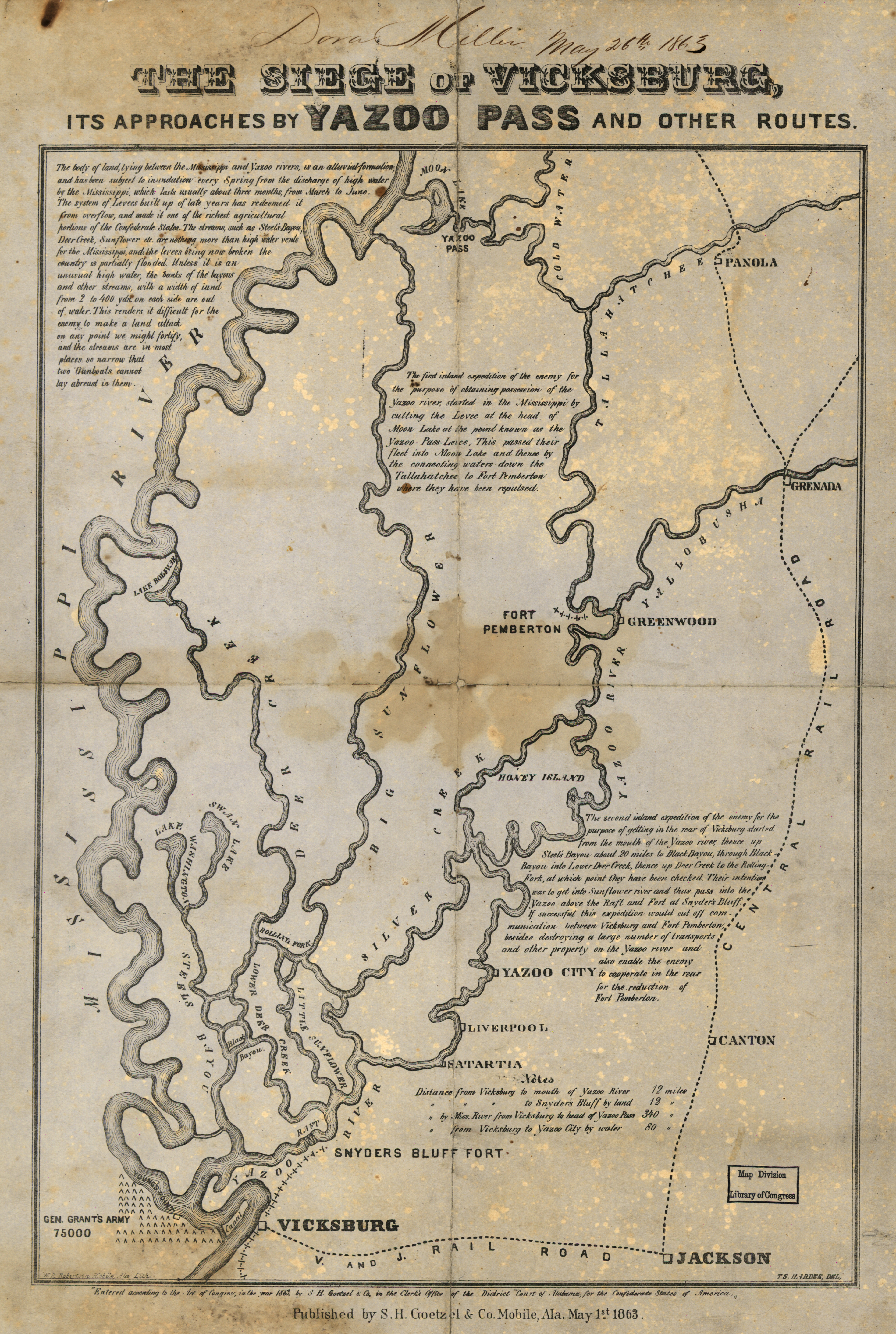 Gives towns, Fort Pemberton, railroads, drainage, and the location of "Gen. Grant's Army 75000" opposite Vicksburg. Brief notes describe the "land lying between the Mississippi and Yazoo rivers" and the first and second "inland expedition[s] of the enemy."